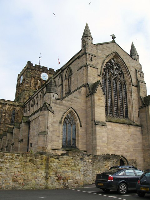 The Nave and Tower of Hexham Abbey from the northwest The nave was rebuilt in 1907-8 on the plan of the 12th C priory nave, with a single aisle on the north side; it was designed by Temple Moore FRIBA in the 14th C Decorated style. {Source: Hexham Abbey Guide, p10.}